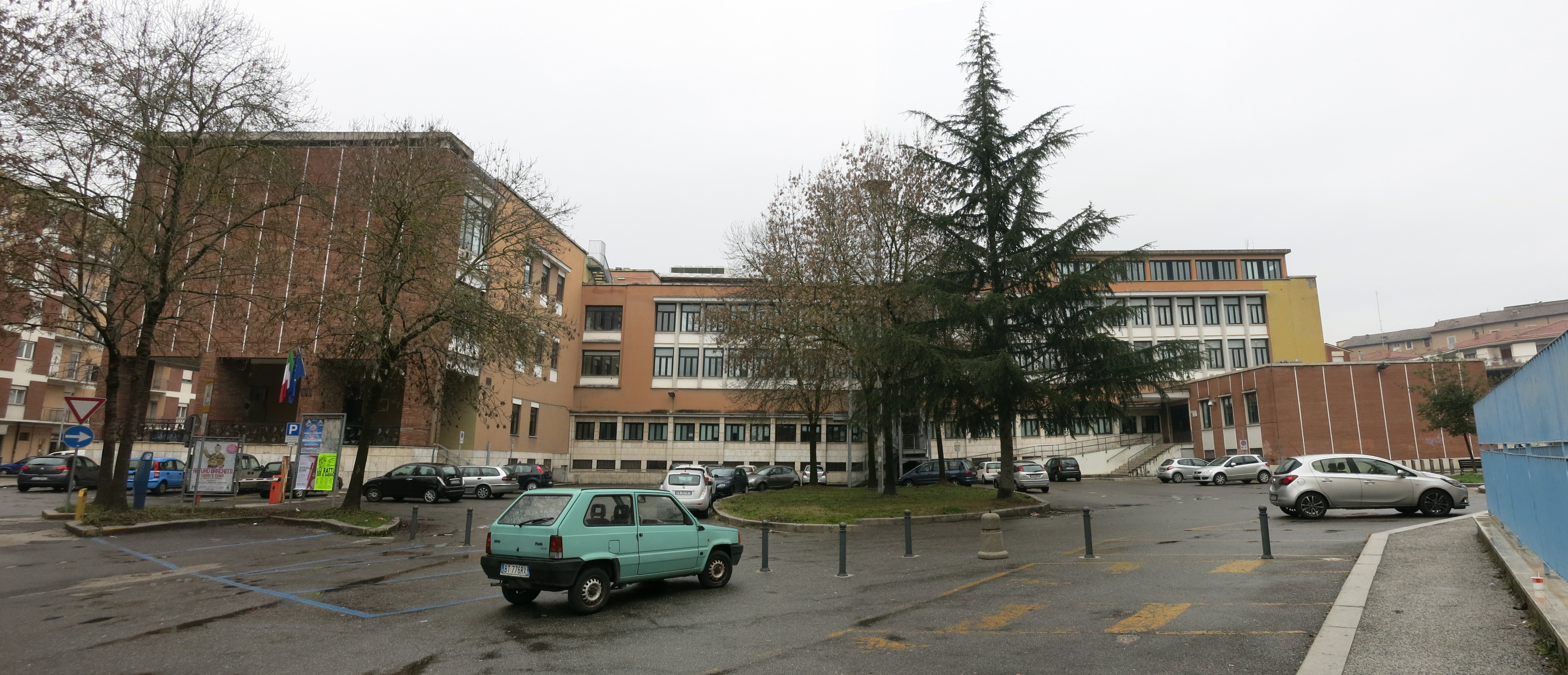 Palazzo di Giustizia, venue of Rieti's courthouse (Lazio, Italy)